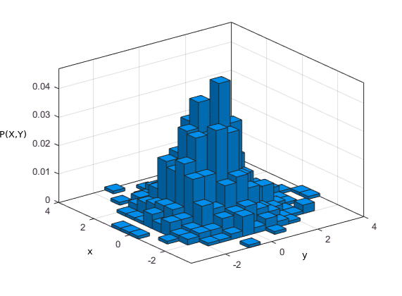 Discrete Joint Probability function.